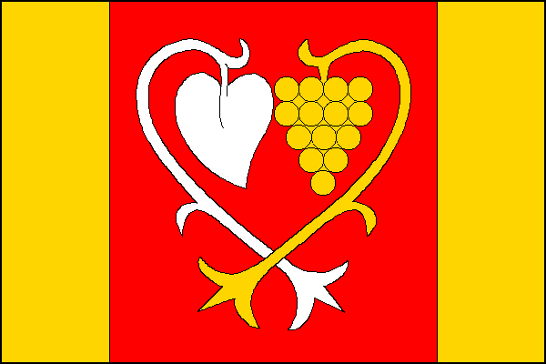 Flag of the municipal corporation Prakšice (Czech republik)